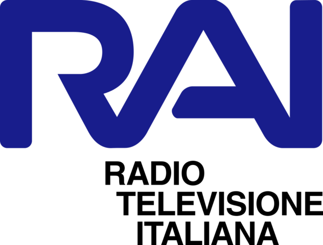 Logo of Rai - Radiotelevisione Italiana (the Italian State radio and TV broadcaster) from 1983 to 1988